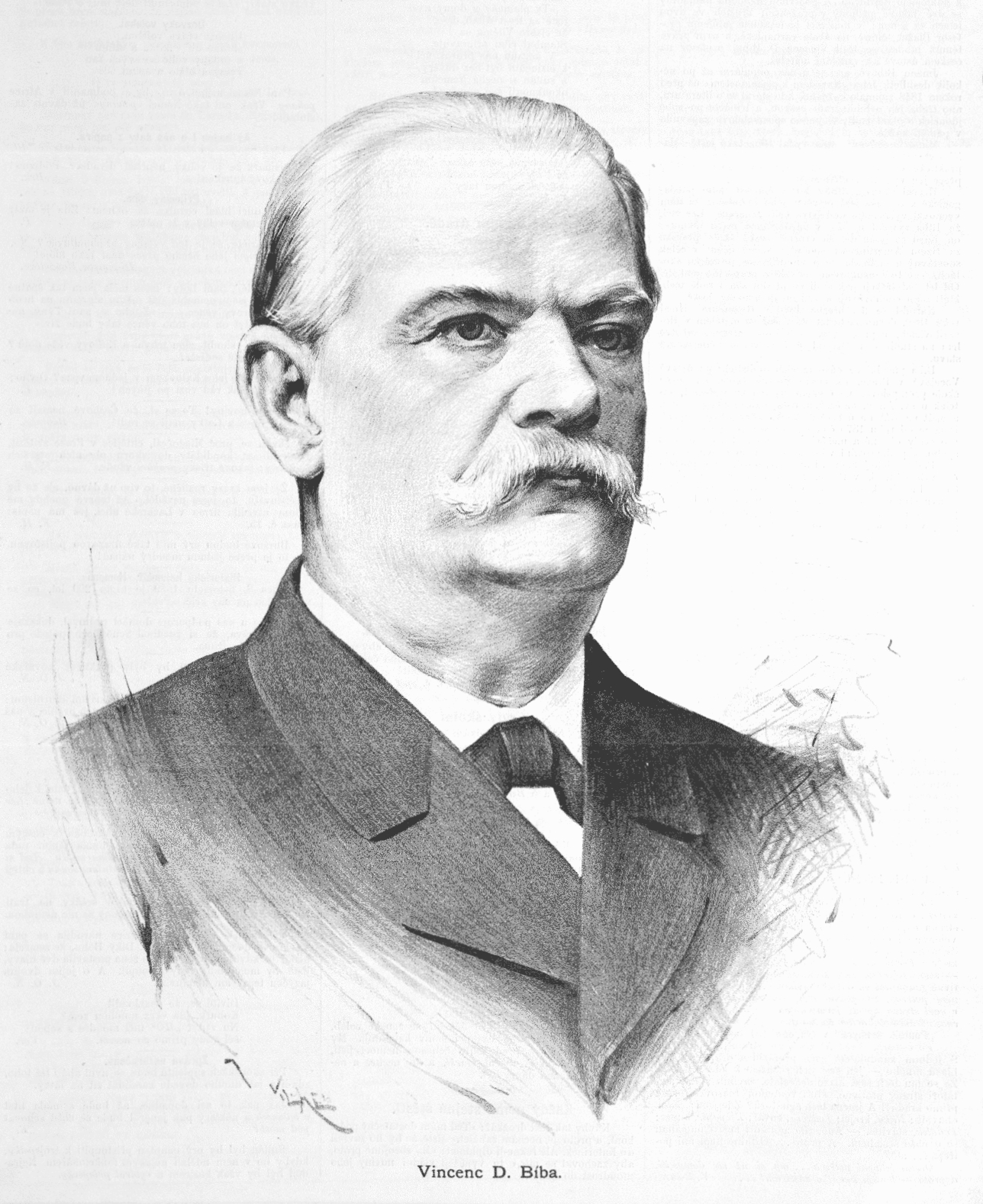 Vincenc Dominik Bíba (1820 - 1906), Czech educator